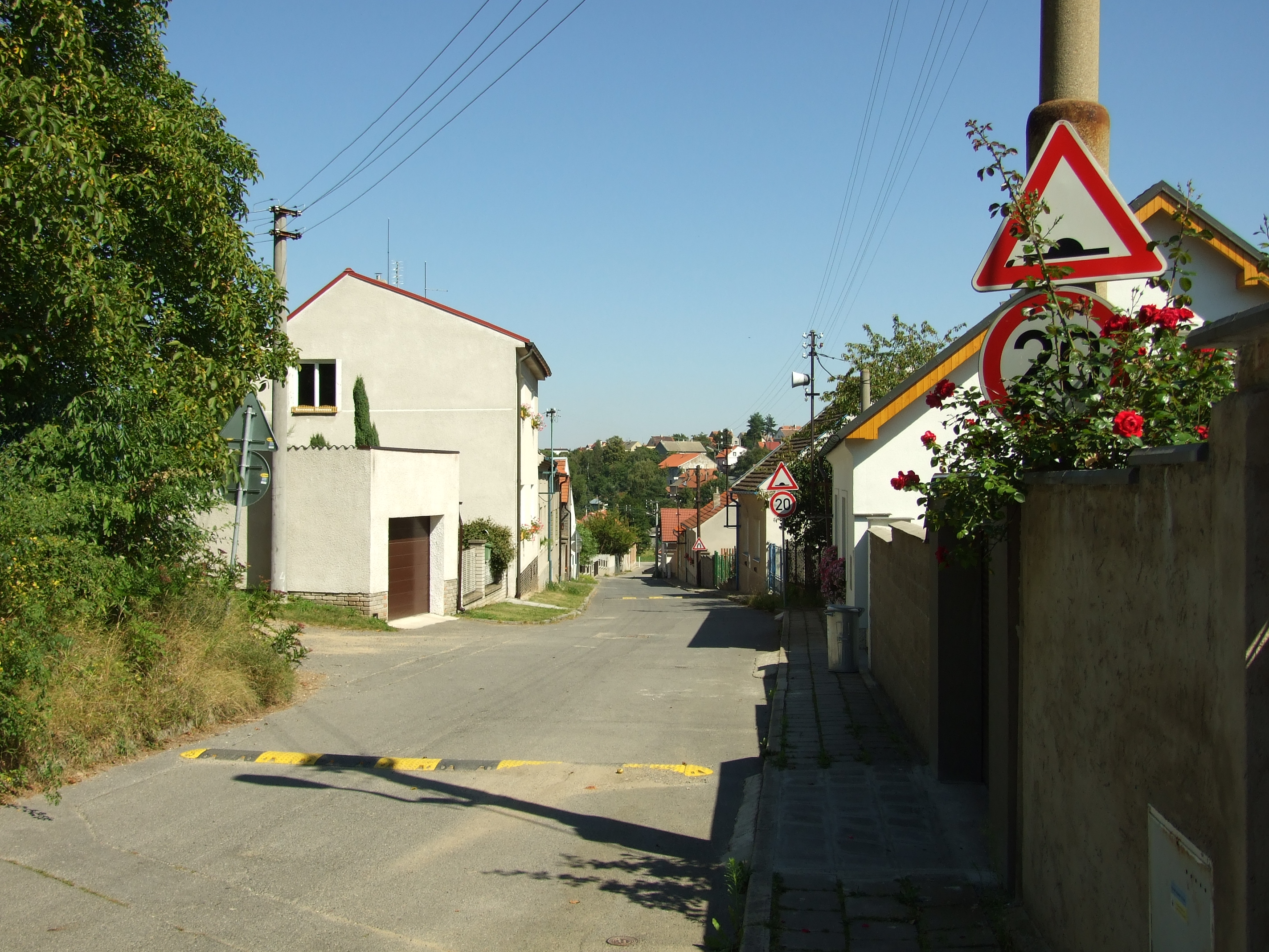 Hradečno village in Kladno district, Central Bohemian region, CZ This photograph was taken within the scope of the 'Czech Municipalities Photographs' grant.